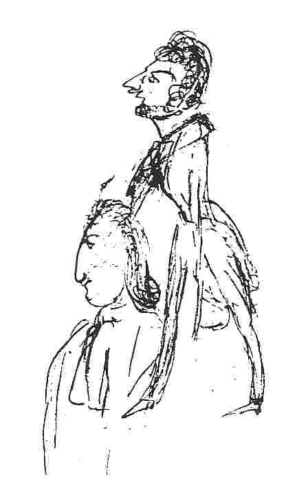 Characters sketch in a draft of Woyzeck